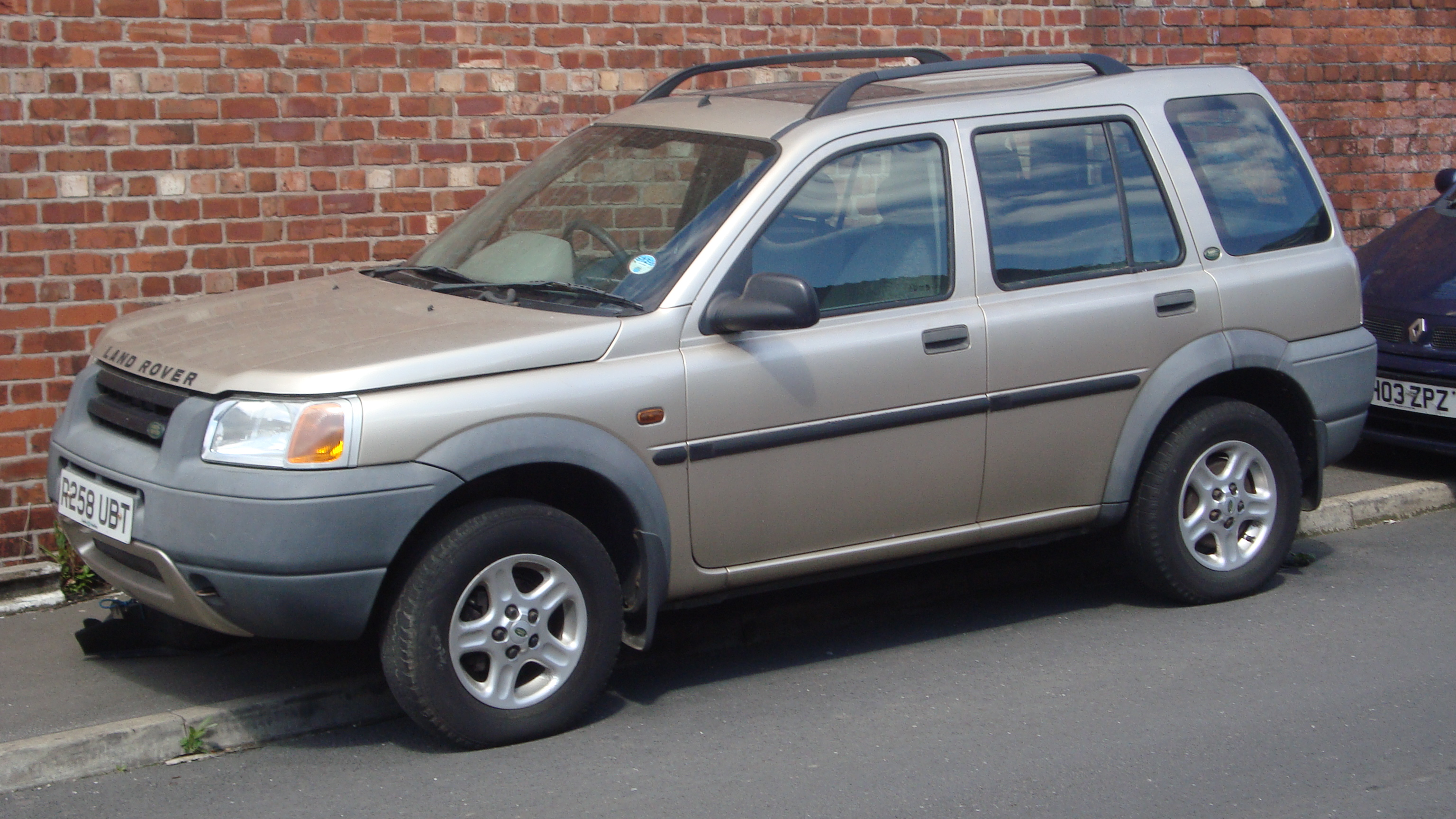 Don't see many R Plate Freelanders these days. This is always parked down a back street (where I've snapped a Brown Mk2 Fiesta before) and hasn't been MOT'd since July 7th 2012 or taxed since the beginning of 2013...